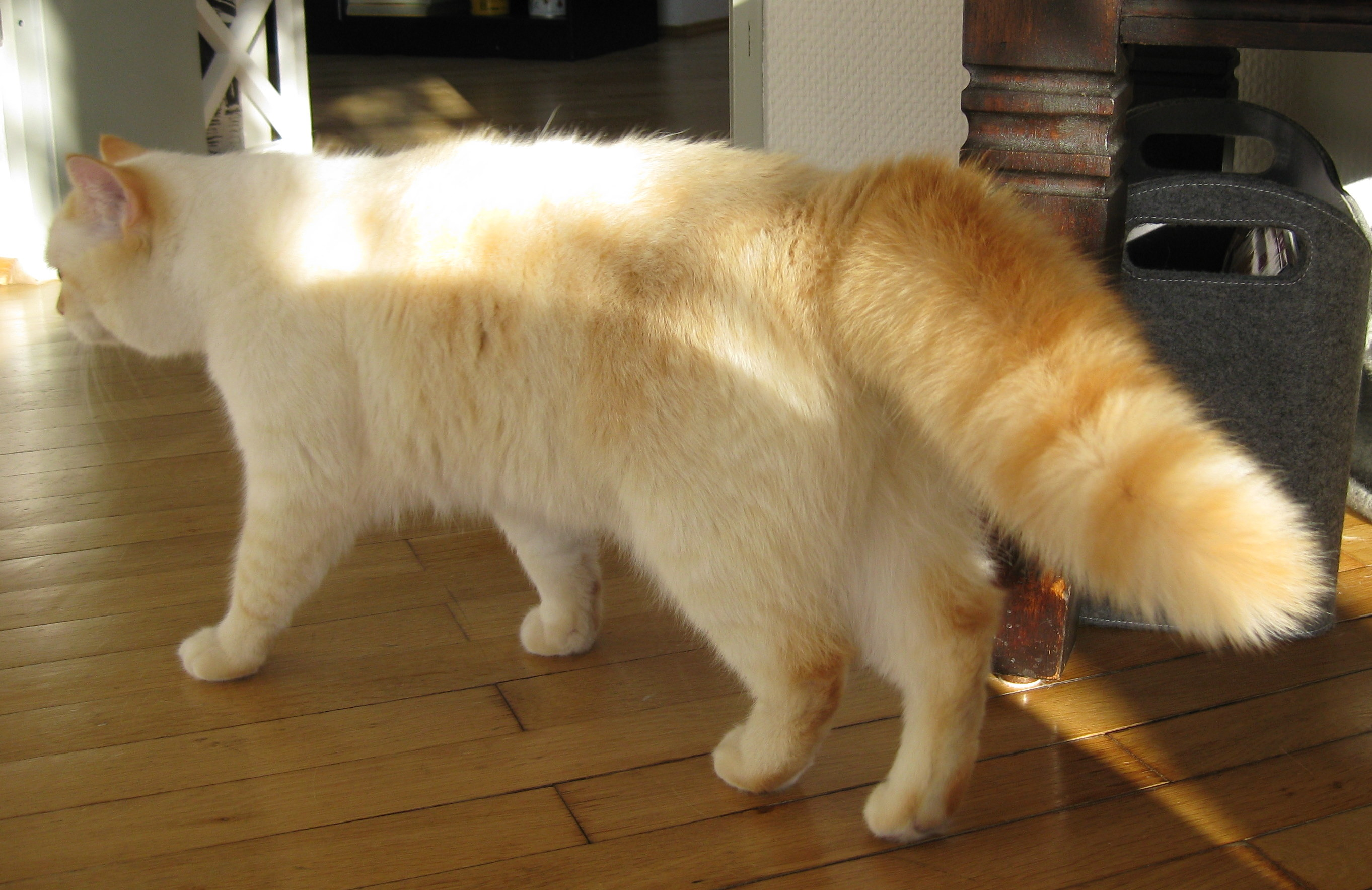 Cat with bushy tail after affright